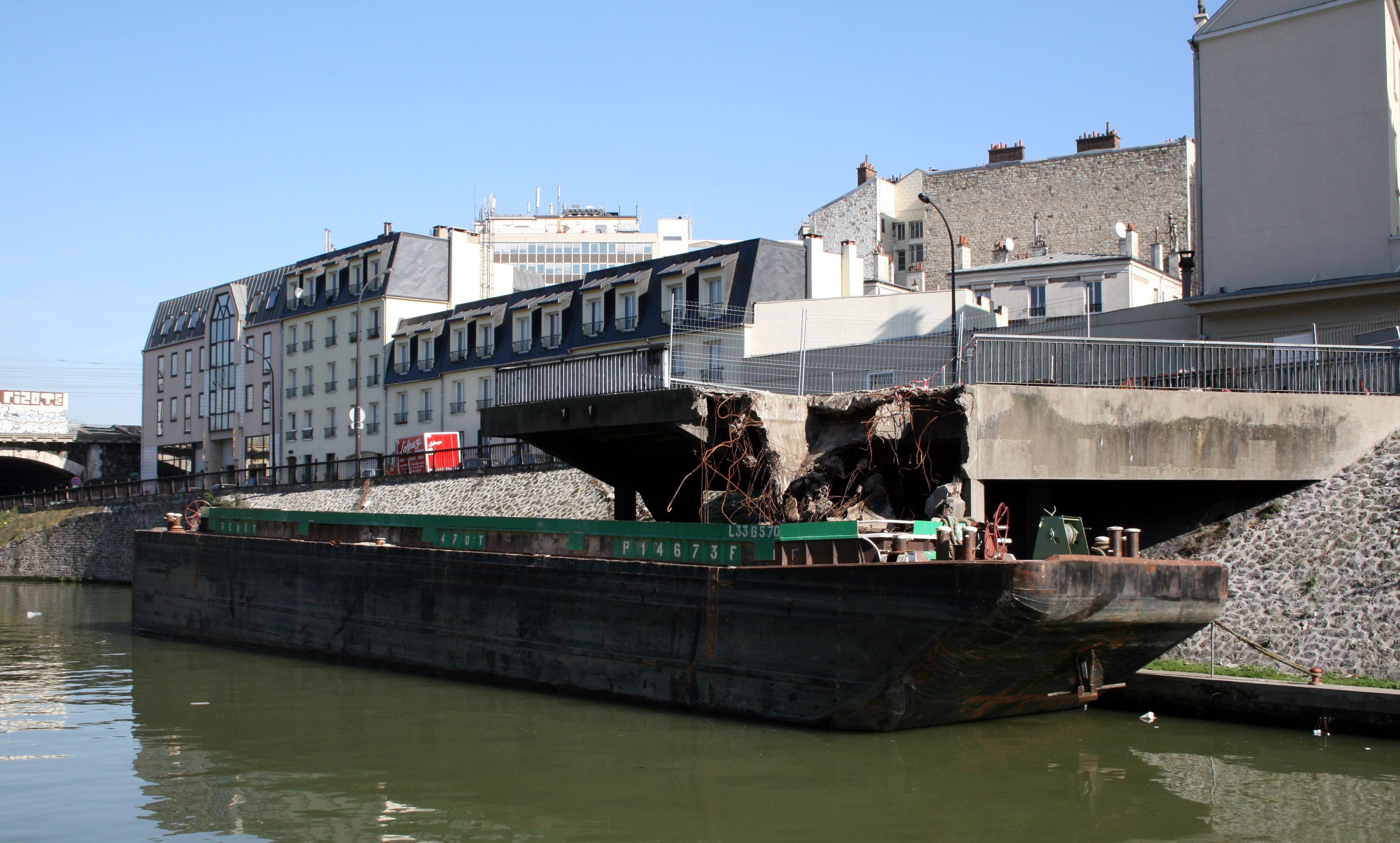 Description =Une barge sur le canal Saint-Denis Source =Photo taken by Remi Jouan Date =Mars 2007 Author =Remi Jouan